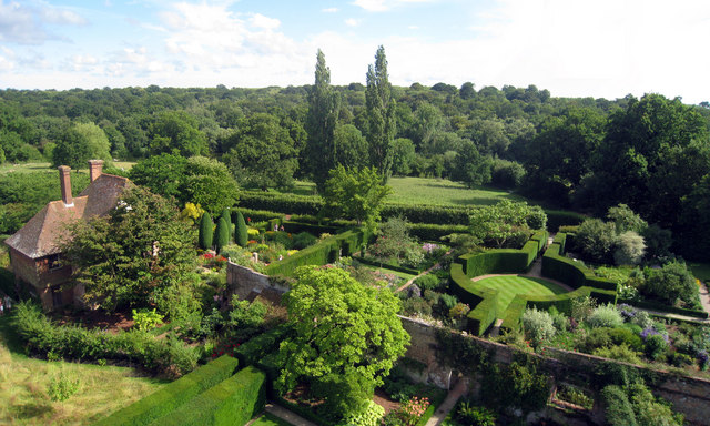 Formal Gardens at Sissinghurst Castle